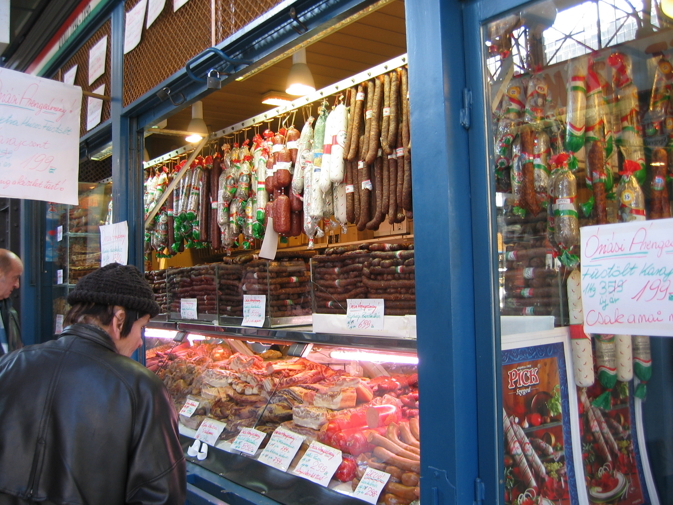 Traditional Hungarian sausages for sale at Nagy Vasarcsarnok (Central Market Hall) in Budapest, Hungary